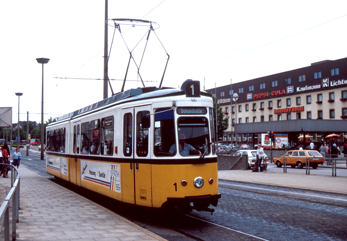 Ulm tram No. 1, ex-Stuttgart 671, was a 1964 GT4 built by Maschinenfabrik Esslingen. It entered service in Ulm in 1987. This tram 1 replaced another Ulm tram 1 that was built by the same manufacturer (Maschinenfabrik Esslingen) in 1958 but was not articulated, and which had remained in service until mid-1987.